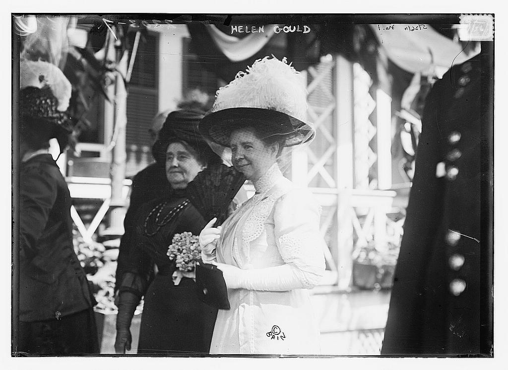 Helen Miller Shepard (June 20, 1868 – December 21, 1938) was an American philanthropist born in Manhattan in New York City Bain News Service,, publisher. Helen Gould [between 1910 and 1915] 1 negative : glass ; 5 x 7 in. or smaller. Notes: Title from unverified data provided by the Bain News Service on the negatives or caption cards. Forms part of: George Grantham Bain Collection (Library of Congress). Format: Glass negatives. Repository: Library of Congress, Prints and Photographs Division, Washington, D.C. 20540 USA, General information about the Bain Collection is available at Persistent URL: Call Number: LC-B2- 2203-7